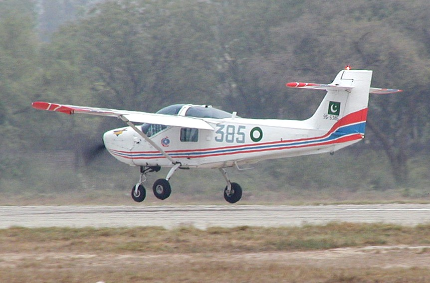 A PAF Super Mashshak trainer aircraft landing at the Walton Airport, Lahore during an airshow. More images at and